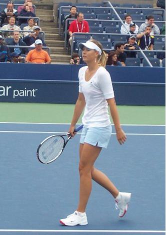 Maria Sharapova Practicing At The 2007 US Open